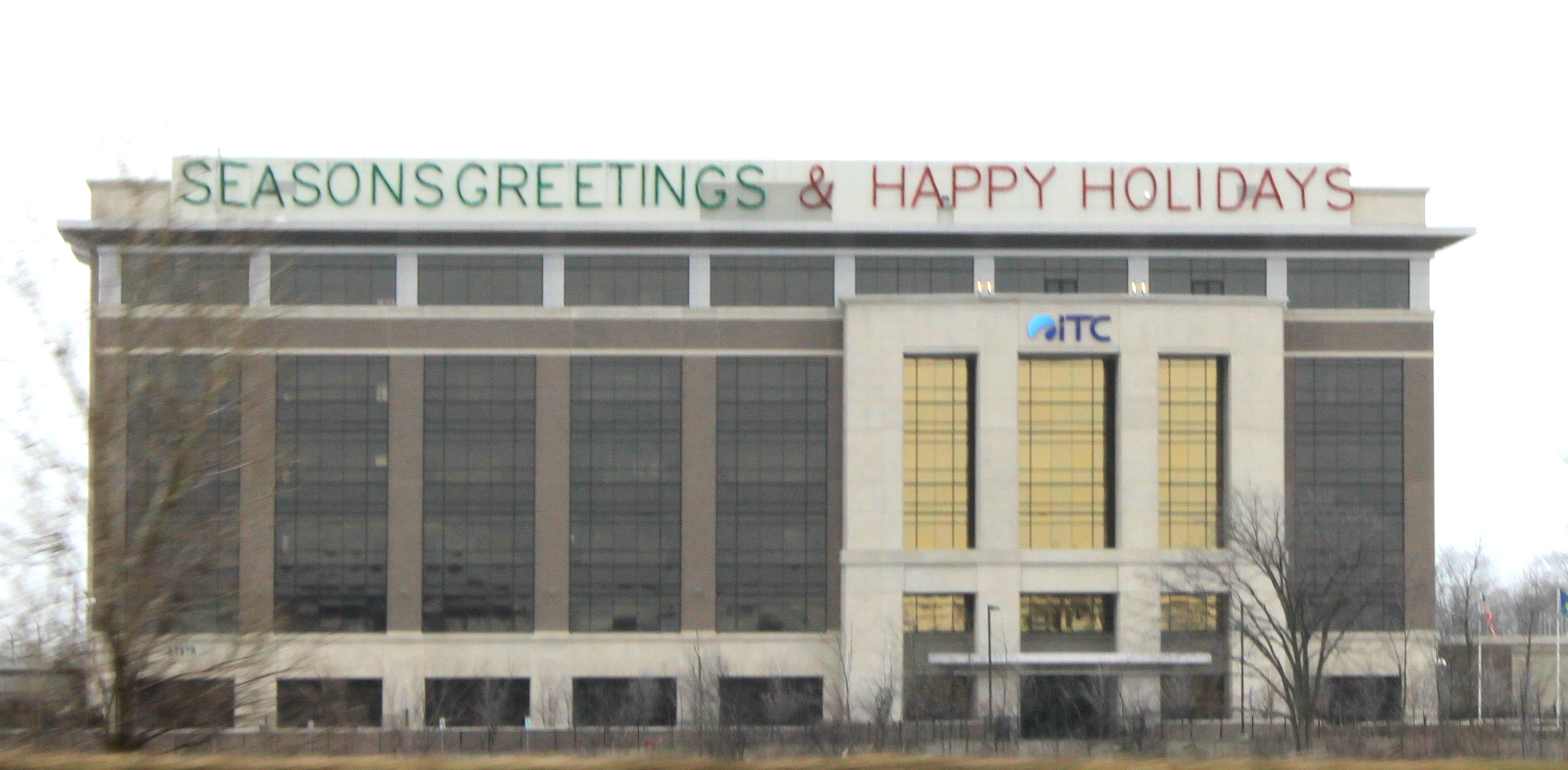 ITC headquarters building, 27175 Energy Way, Novi, Michigan